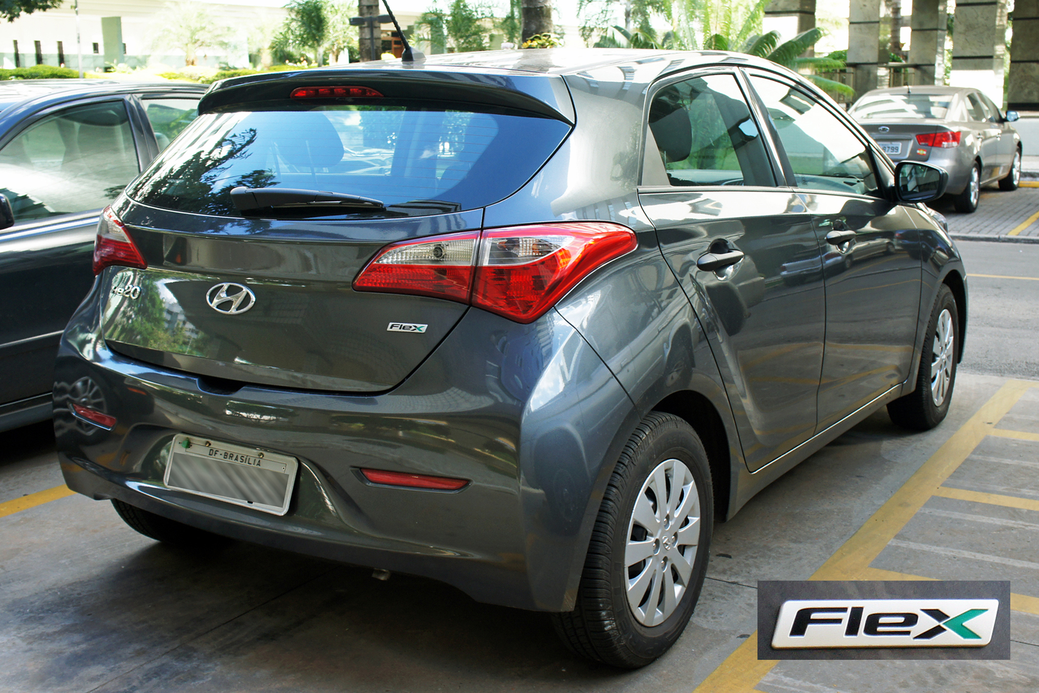 2012 Hyundai HB20 with its flexible-fuel badge, Brasilia, Brazil